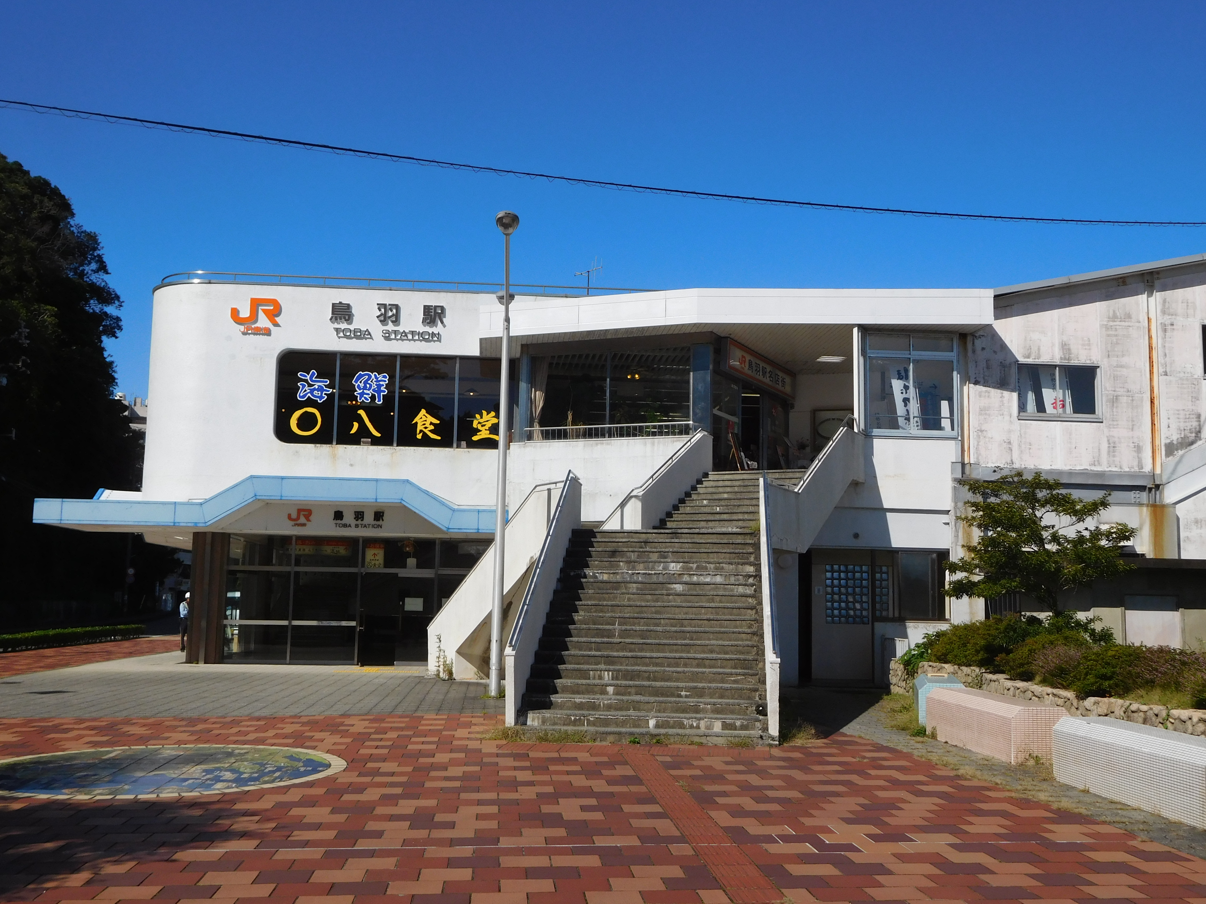 This is JR Toba station in Toba, Mie, Japan.